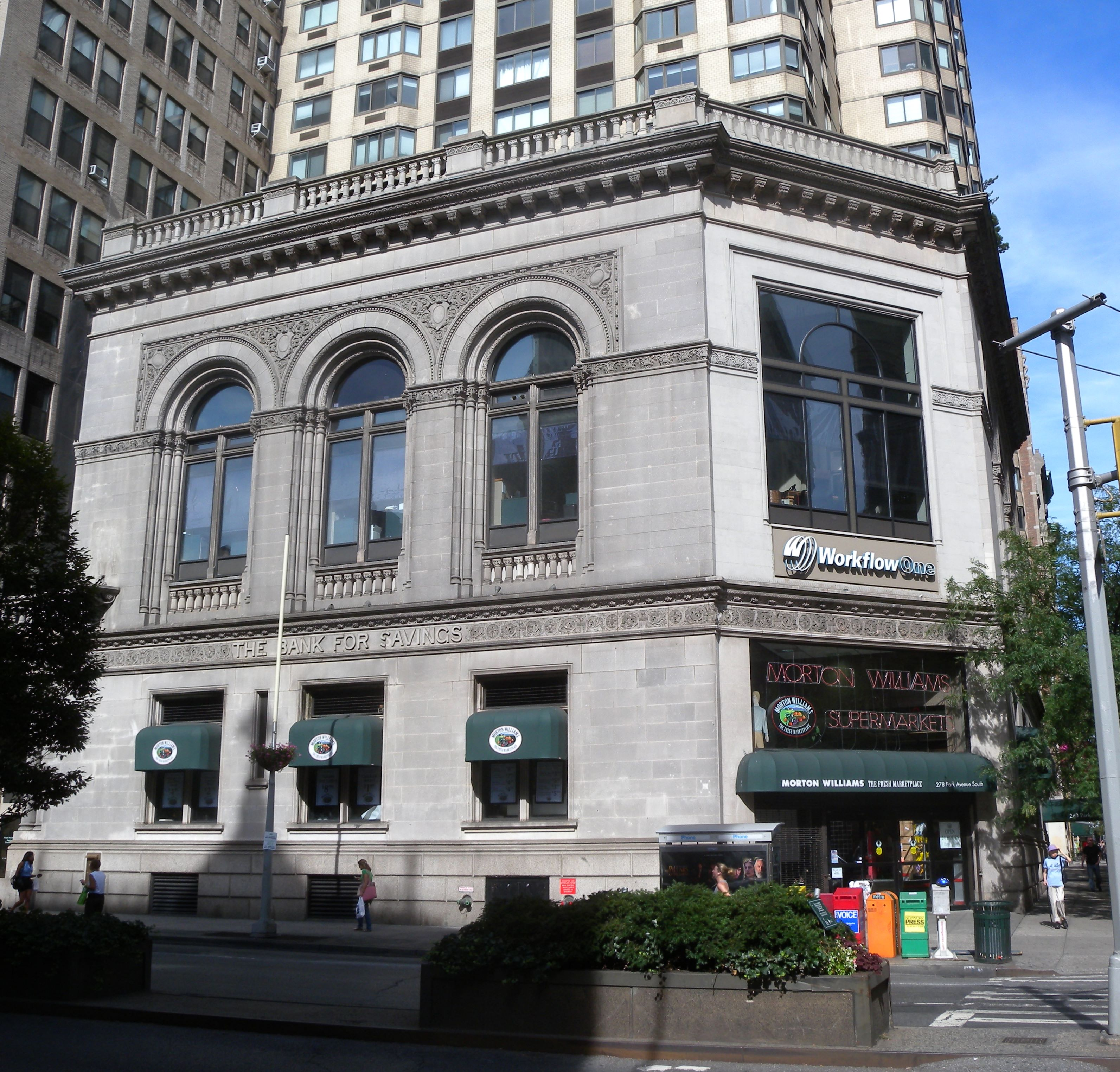 Looking west across Park Avenue at former The Bank for Savings in the City of New York, now serving more humbly as a Morton Williams grocery.